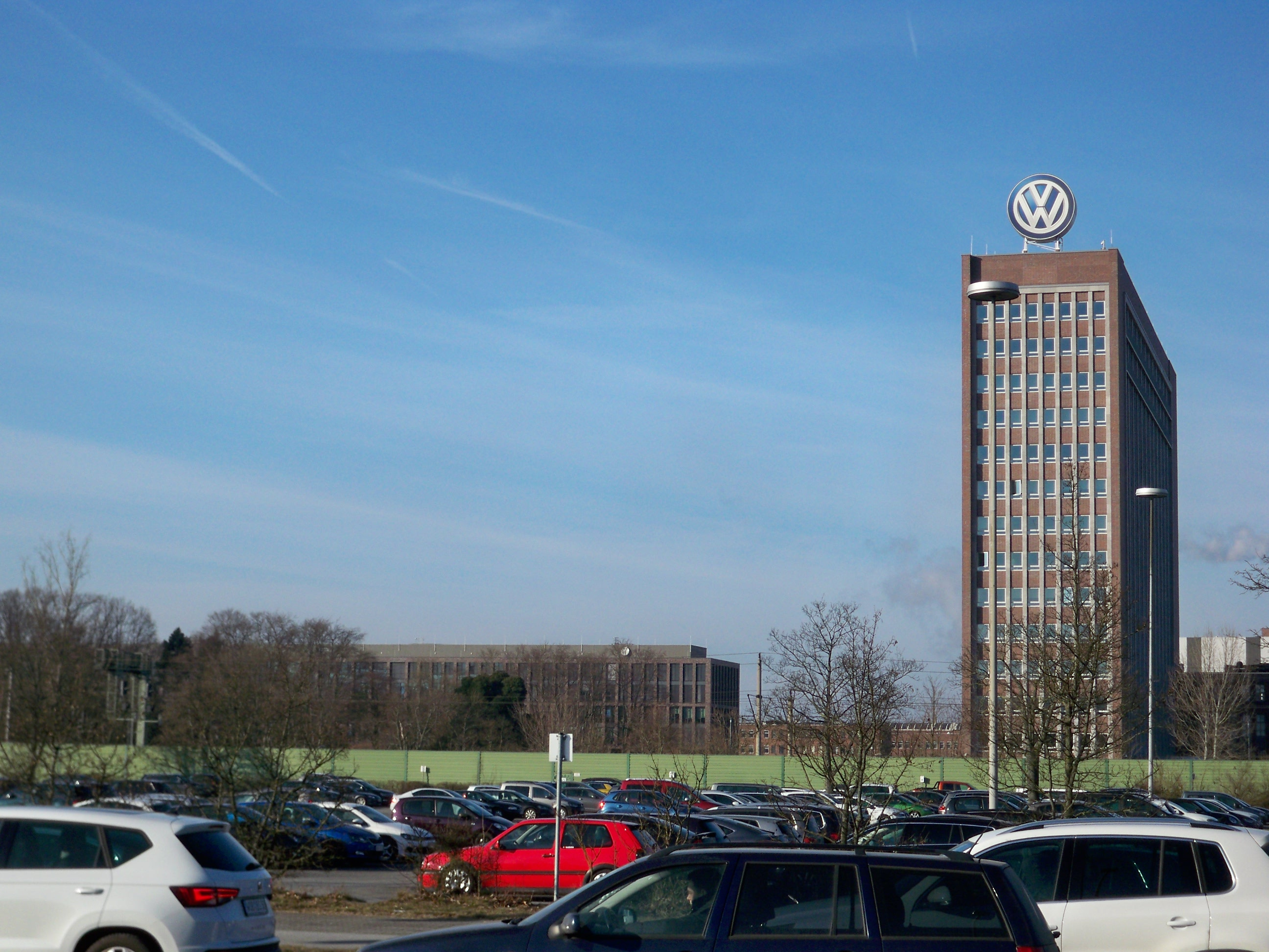 Wolfsburg, Lower Saxony, Volkswagen, buildings of executive (centre, called "BT 10) and Volkswagen (brand) executive